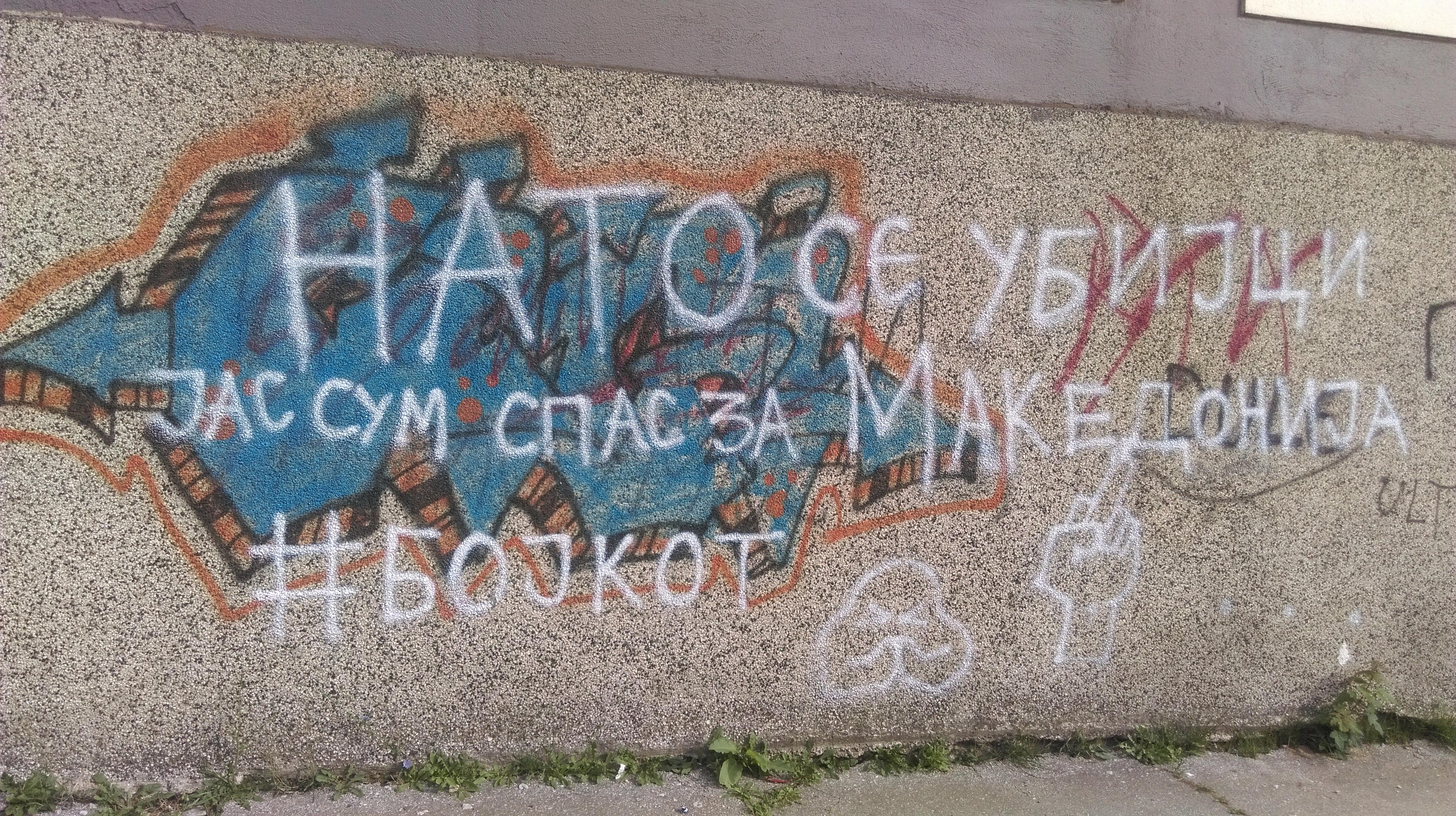 Anti-NATO sentiment graffiti in Ohrid, Macedonia, 2018. It reads, “НАТО се убијци јассум спас за Македонија #Бојкот,” which translates to “NATO are killers. I am for the salvation of Macedonia. #Boycott.”